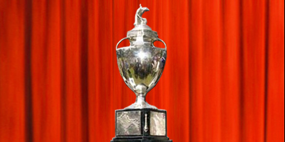 Ranji Trophy